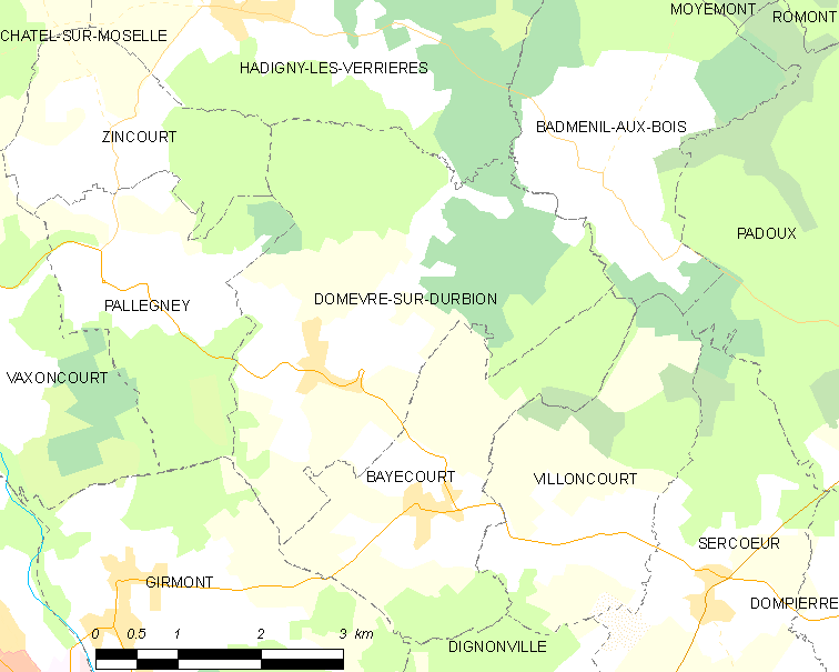 Map of French municipality Domèvre-sur-Durbion